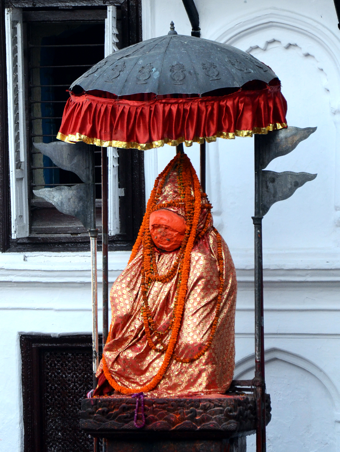 Hanuman statue, Hanumandhoka at Basantapur Durbar Square, Kathmandu, Nepal